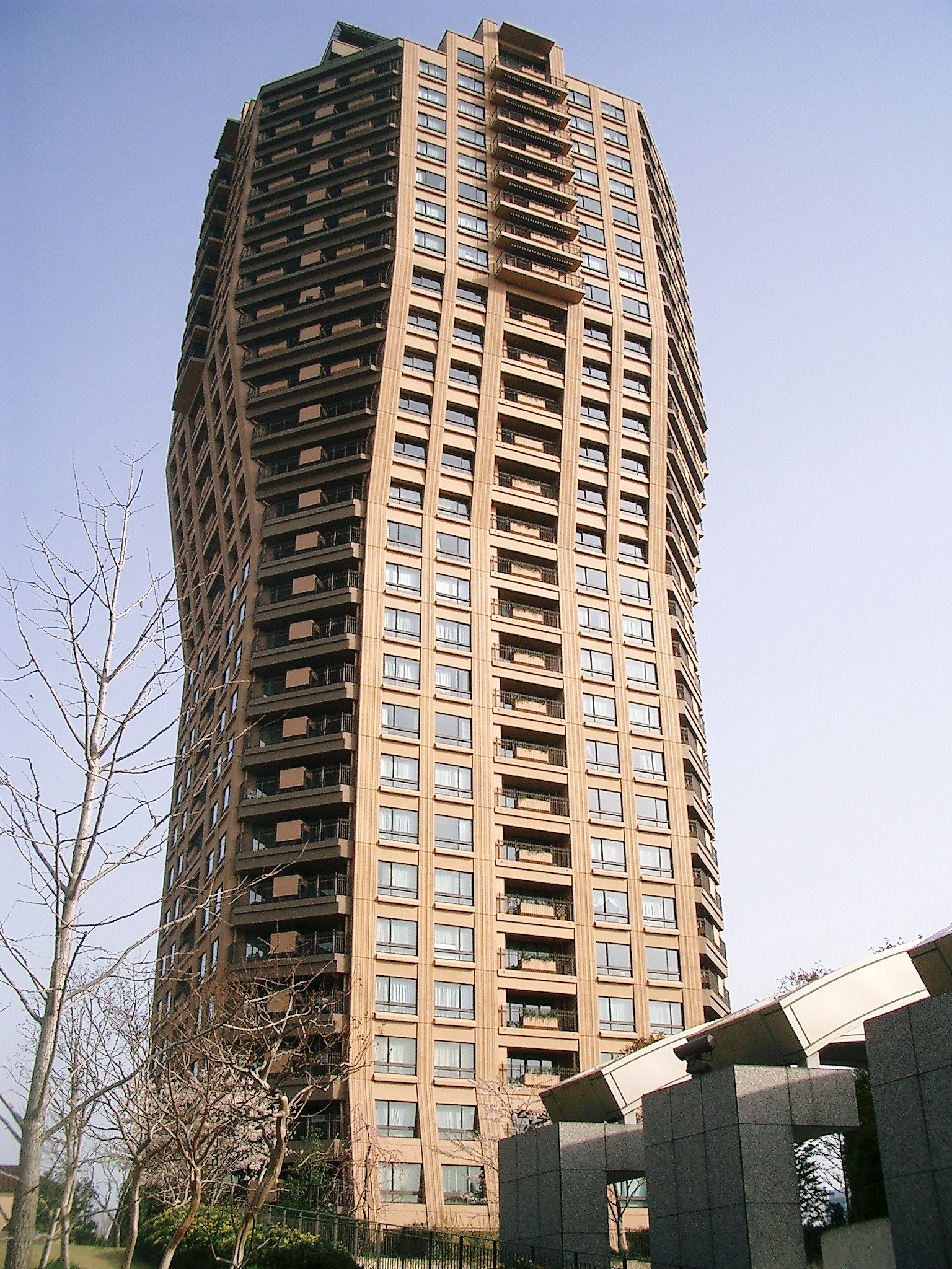 Motoazabu Hills (元麻布ヒルズ) Forest Tower